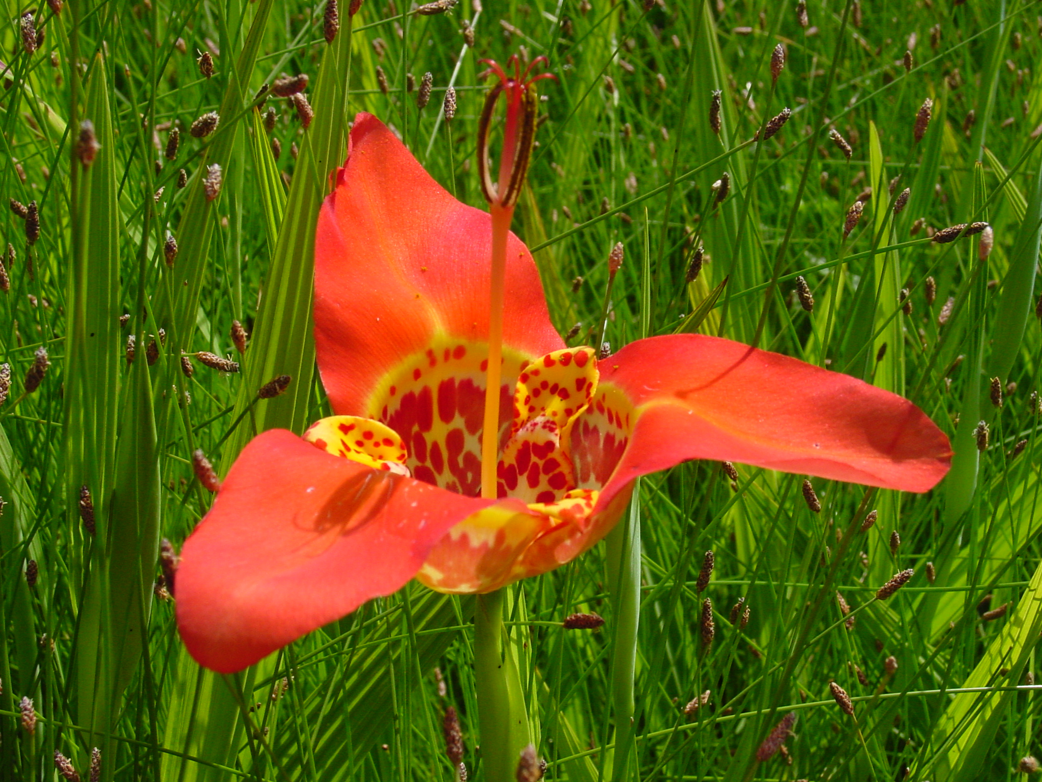 Description: Tigridia (probably pavonia) growing wild in Tamaulipas, Mexico. Photo by: Noah Elhardt